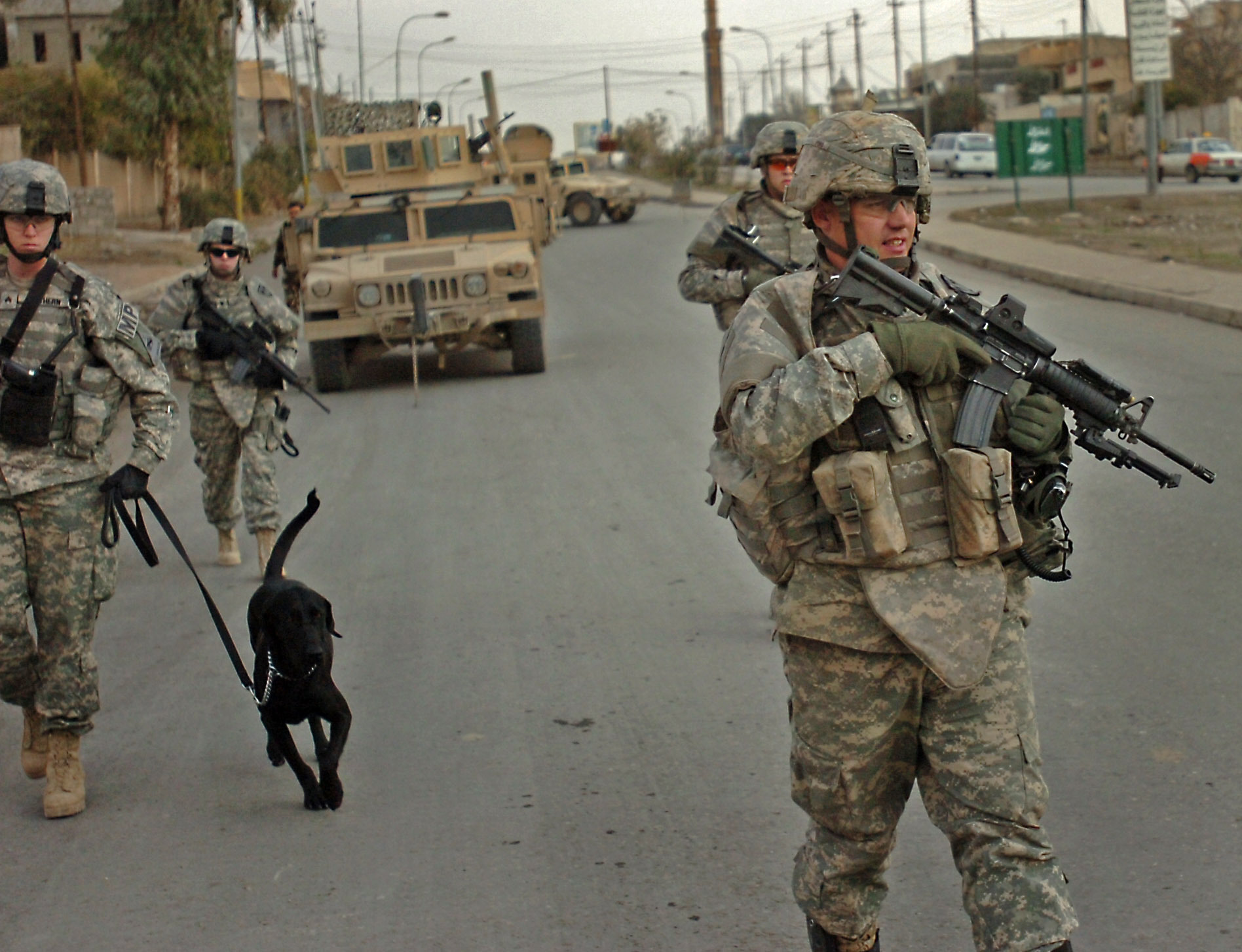 Sgt. 1st Class Michael Ford, platoon sergeant for 1st Platoon, and other Soldiers from the 552nd Military Police Company, based out of Schofield Barracks, Hawaii, move down a street in downtown Mosul before stopping vehicles to search for weapons and bomb-making materials on Feb. 14.